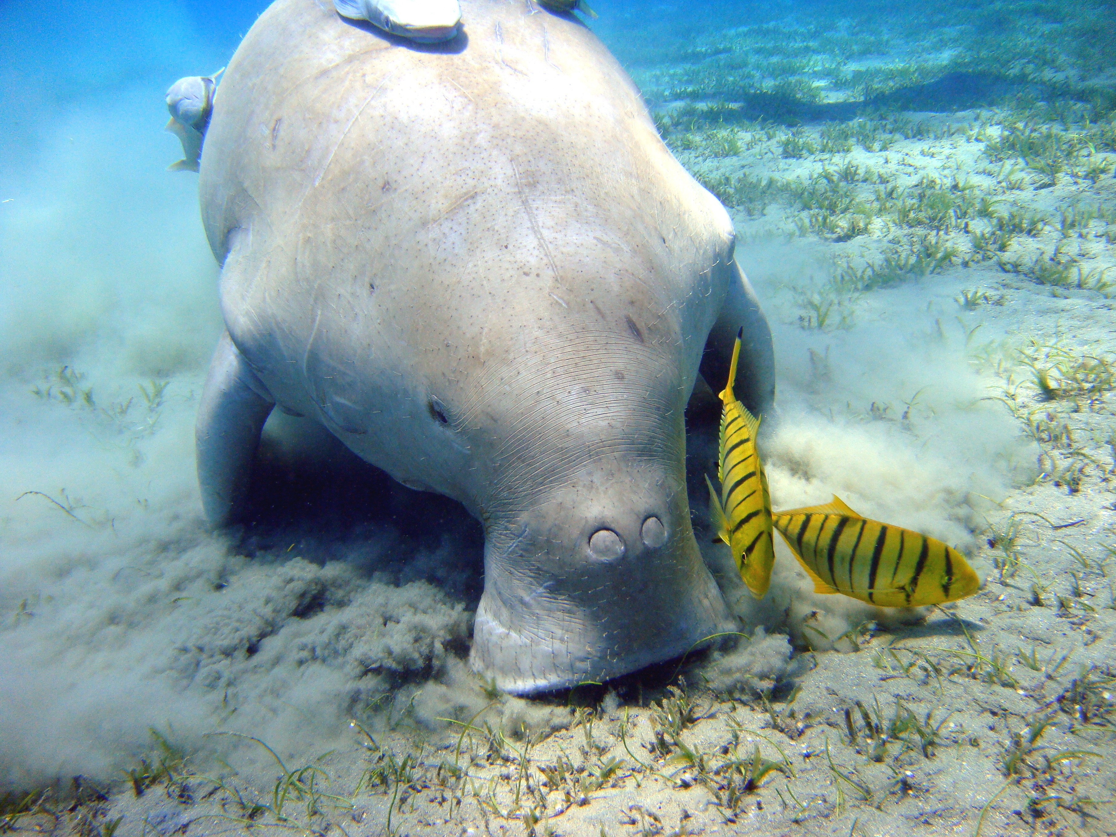 A Dugong near Marsa Alam (Egypt).